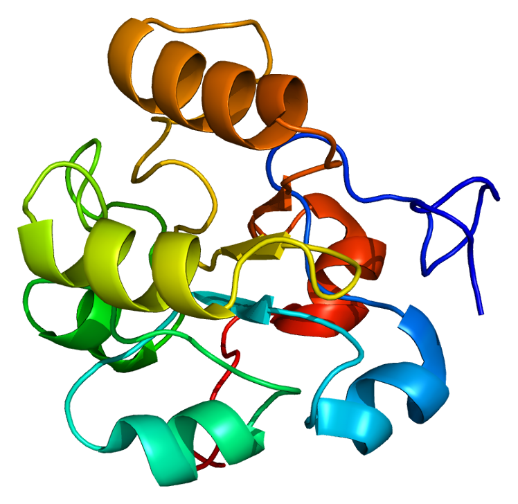 Structure of the DUSP6 protein. Based on PyMOL rendering of PDB 1hzm.